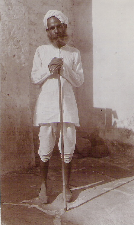 BAVJI CHATUR SINGHJI